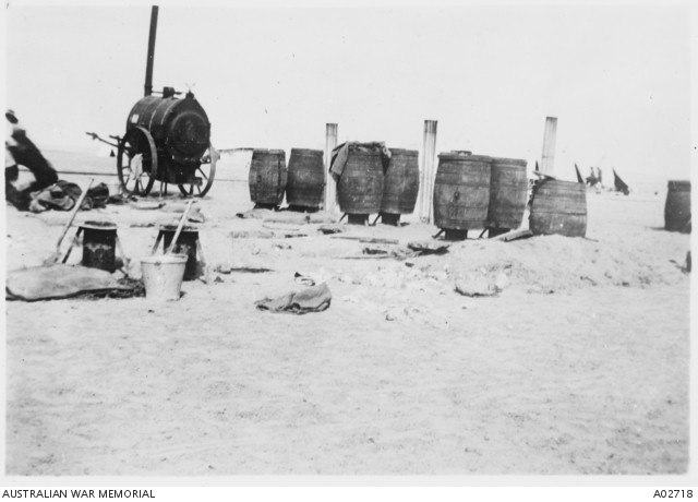 A mobile thresh disinfector left, on wheels and Serbian barrel delousers, used by the 2nd Australian Sanitary Section to kill lice in uniforms, blankets and so on. Neither of these methods were adequate for speedy, large scale disinfection, which required high pressure steam. Lice infestation was heavy among troops in the desert, opportunities for washing were limited. Location: Egypt: Suez Canal, Ferry Post